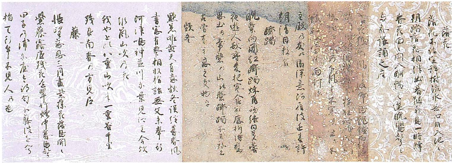 Poems from the anthology Wakan rōeishū. Kansu version. Attributed to Fujiwara no Kintō. One of two handscrolls, ink on decorated paper. Heian period. 12th century.